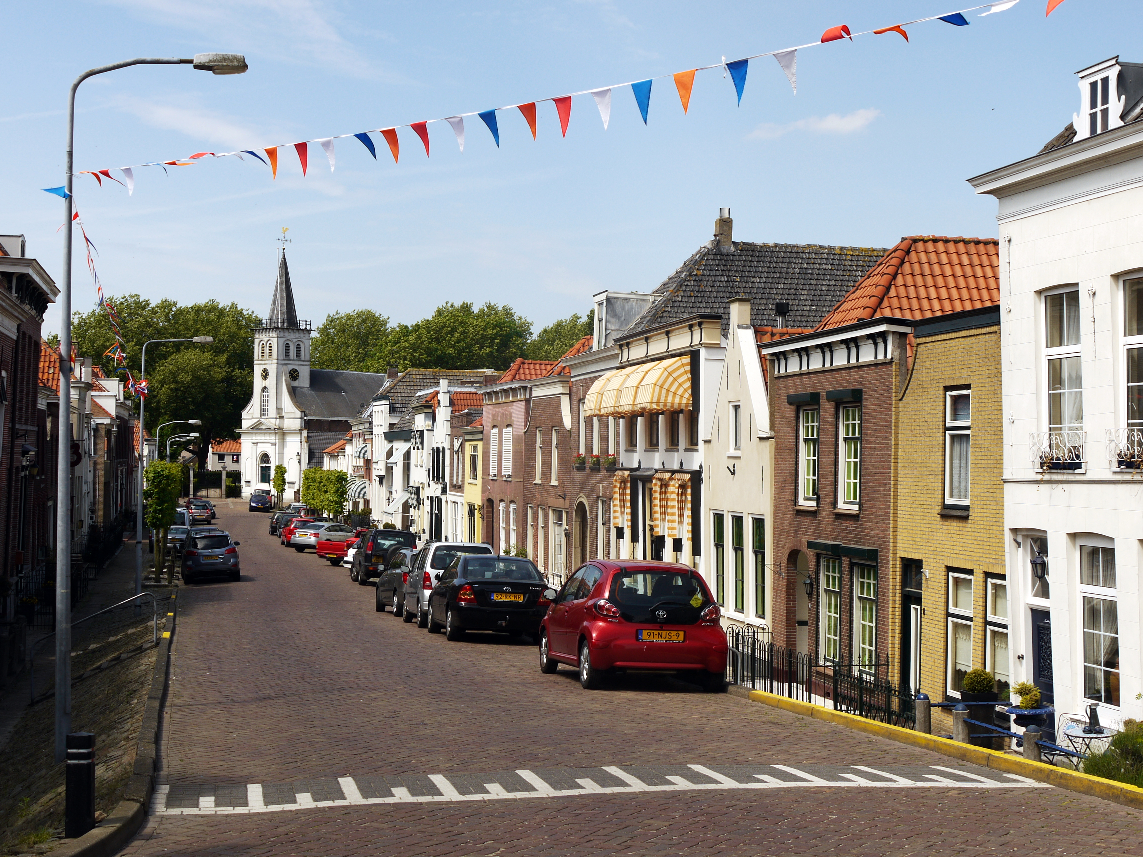 Voorstraat, a street in Ooltgensplaat